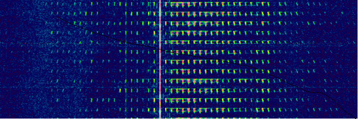 Waterfall display for "The Buzzer", radio station UVB-76 on 4625 KHz. The lower sideband is clearly suppressed.